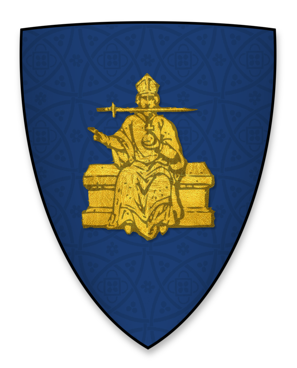 Arms displayed by Richard Poore, Bishop of Chichester, at the signing of Magna Charta